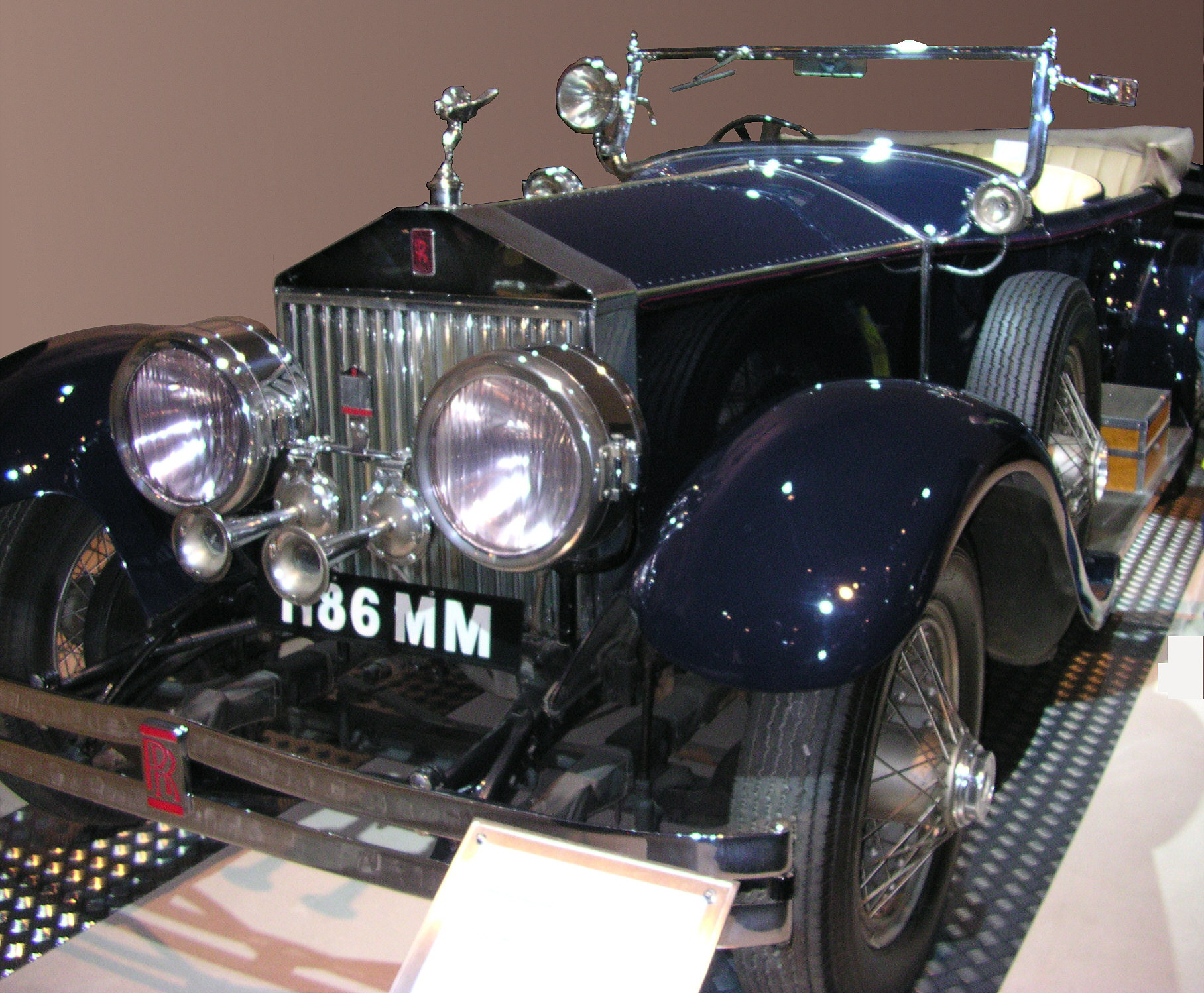 Essen Techno-Classica 2007, Rolls-Royce Silver Ghost Pall Mall Torpedo Tourer Brewster New York 1923